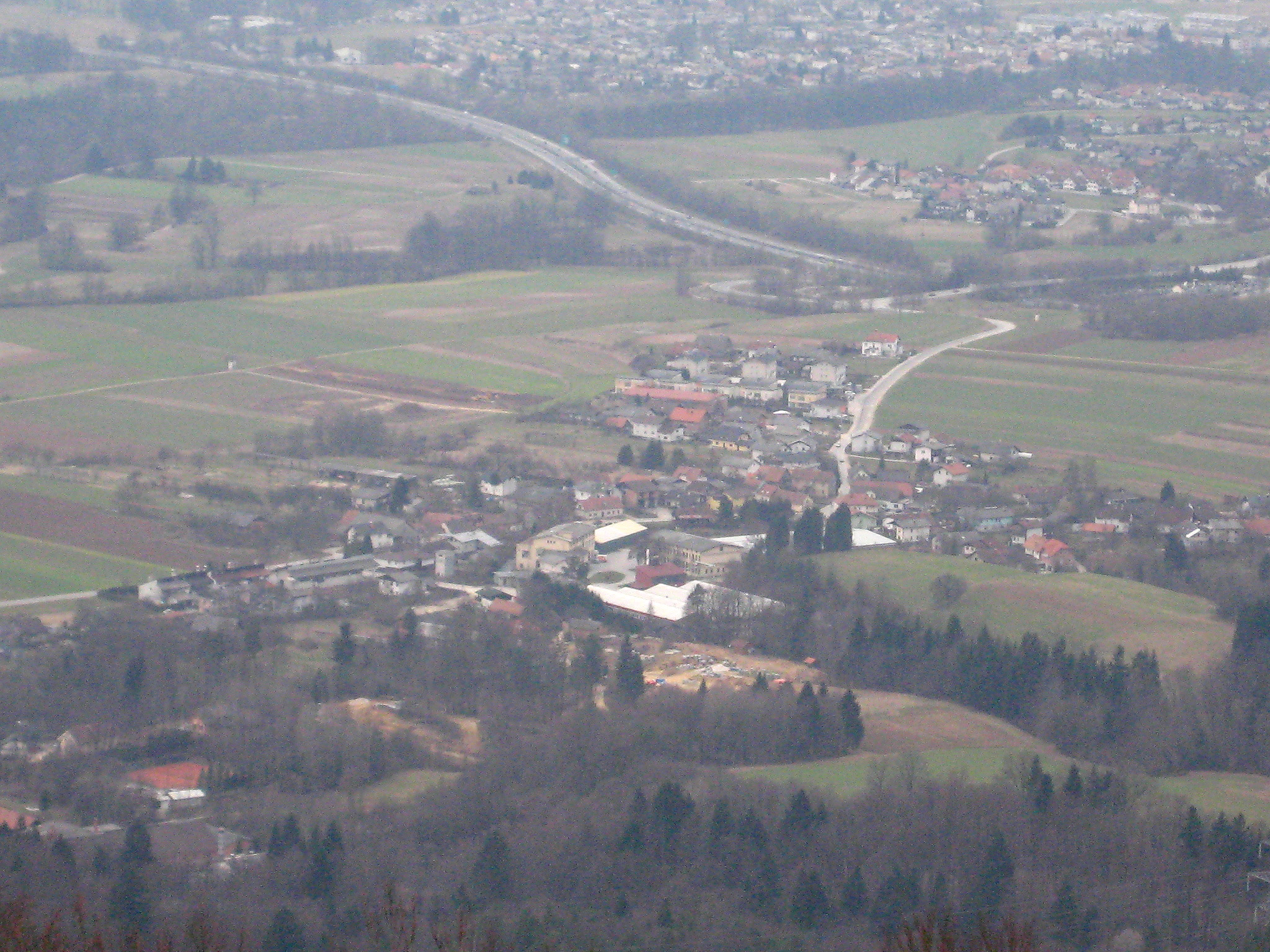 Zgornje Gameljne, village near Ljubljana, Slovenia